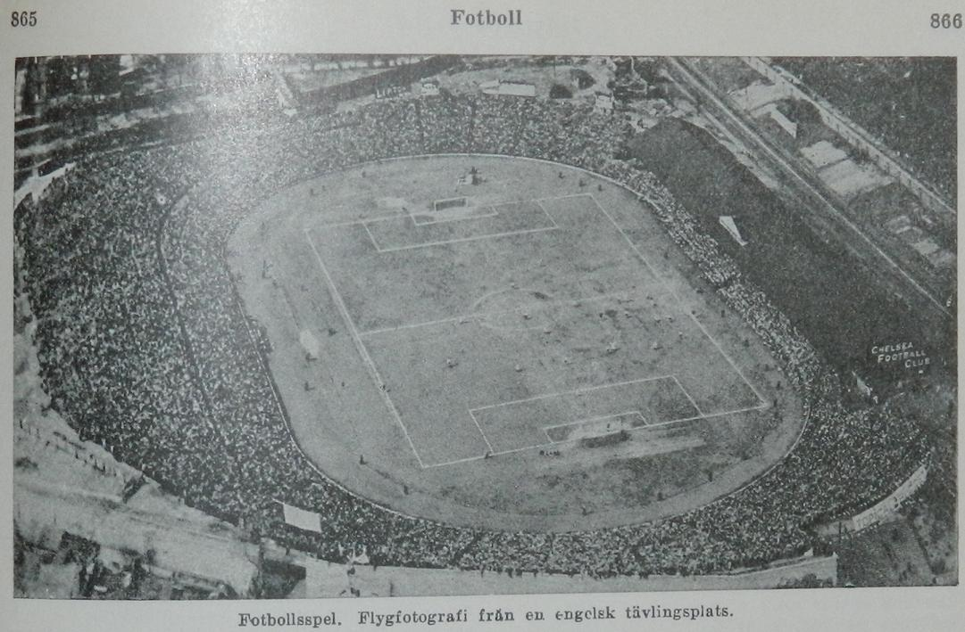 Air photo of Stamford Bridge from late 1920's. It's the only real photo which illustrates the article "Fotboll" (Football) in the Swedish Encyklopedia "Nordisk Familjebok" , third edition